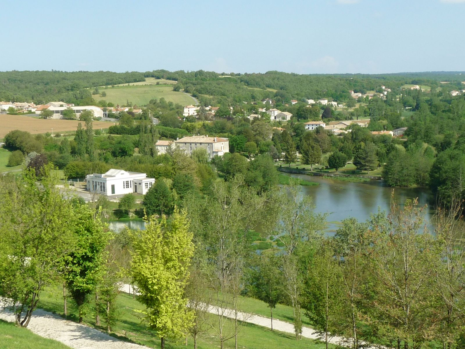 The springs of Touvre River, Charente, SW France